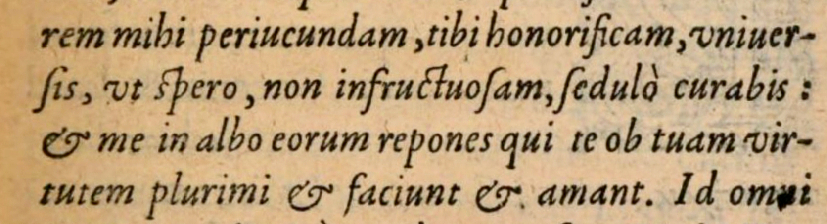 Italic typeface by Claude Garamont shown in the 1584 book Tetrasticha (digitisation: Google Books, attribution: Hendrik Vervliet, French Renaissance Printing Types: A Conspectus)